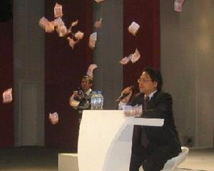 Wu Hao, a Chinese politician. This photo was taken at Renmin University of China.